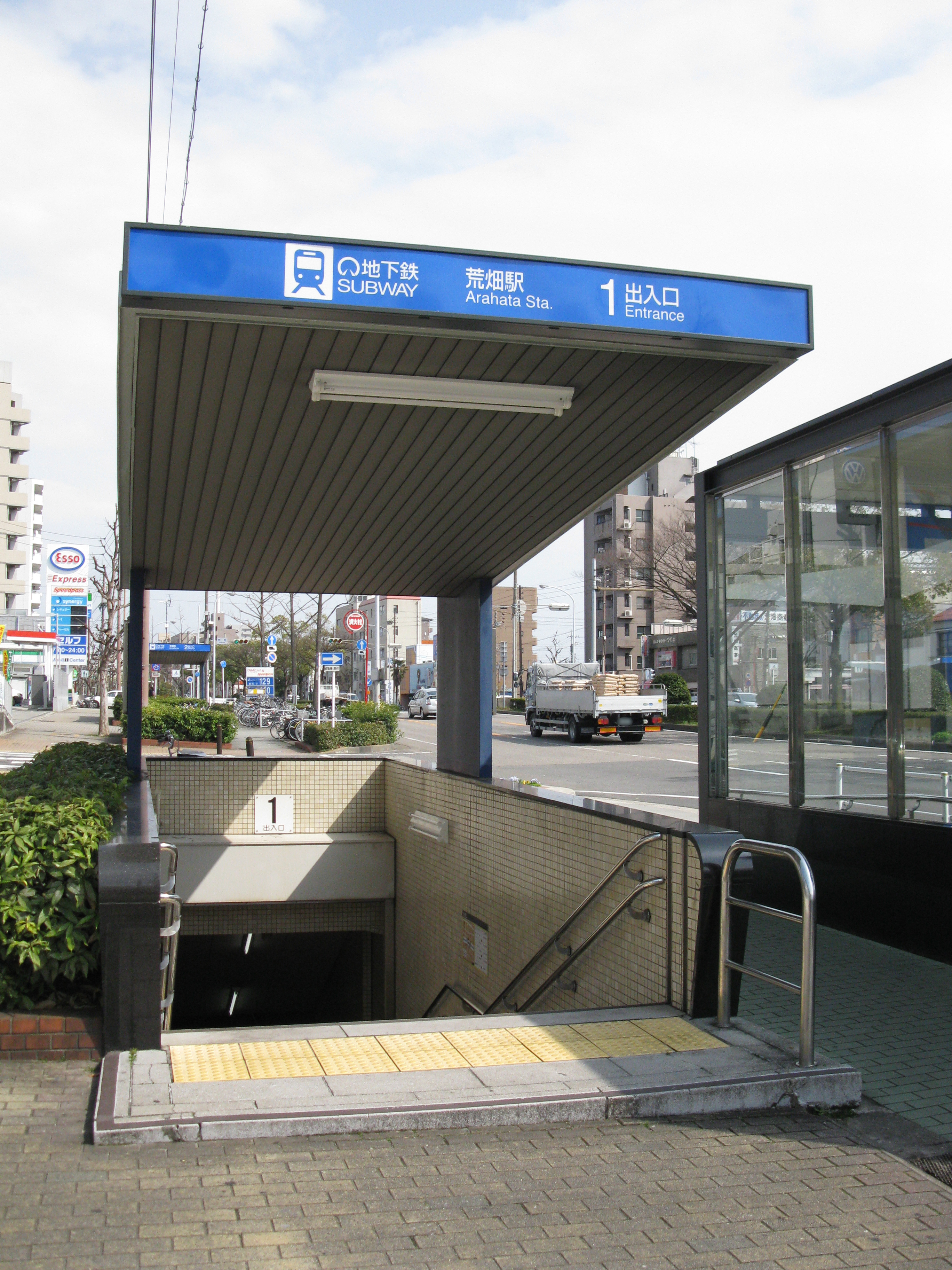 Arahata Station no.1 entrance (Nagoya Municipal Subway Tsurumai Line)